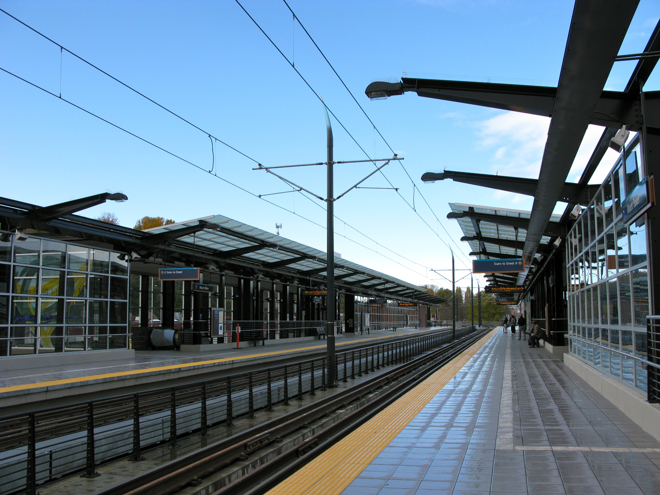 A break in the storm reveals clear skies above.